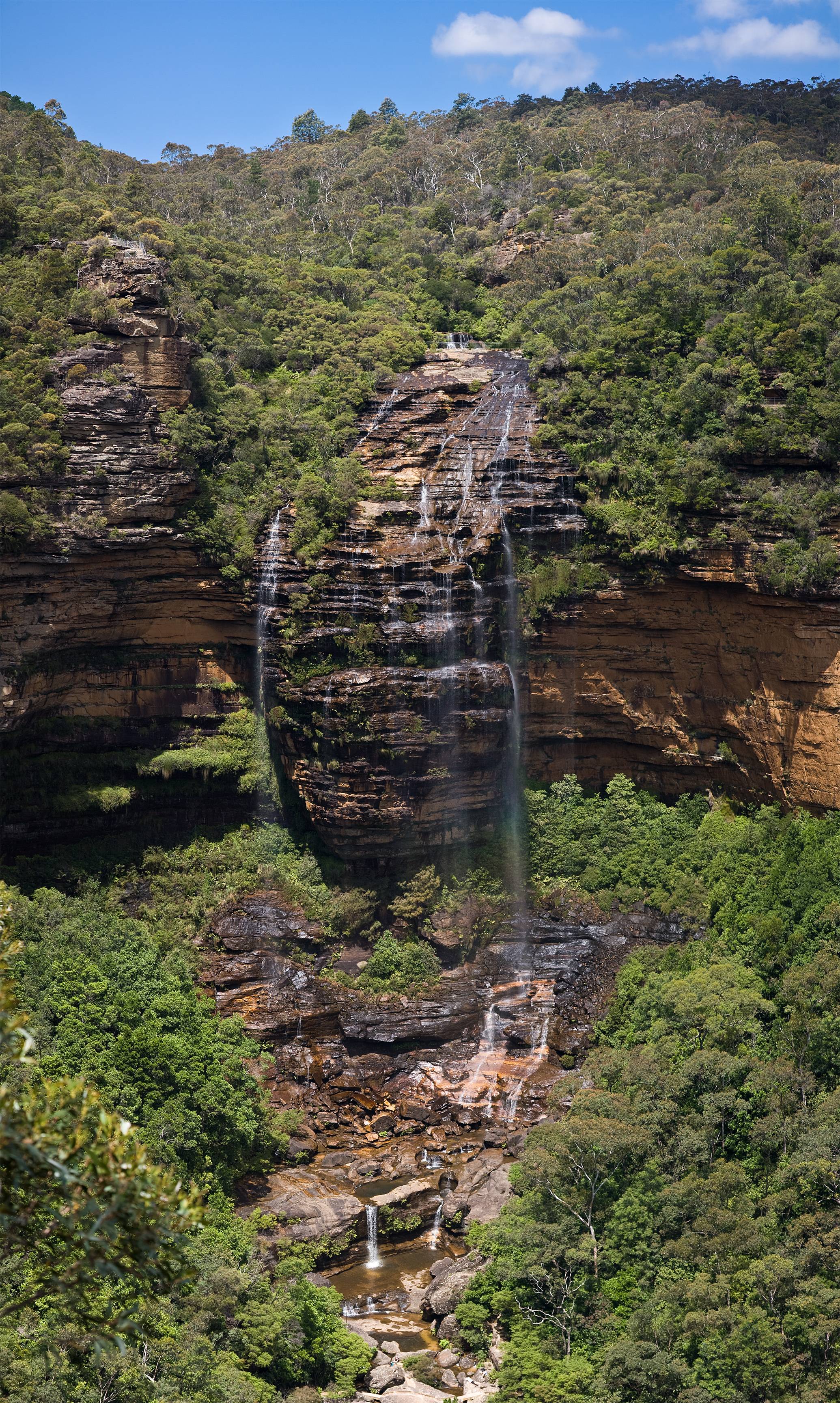 Upper Wentworth Falls as viewed along the National Pass walking track in the Jamison Valley, near the town of Wentworth Falls in the Blue Mountains, Australia.